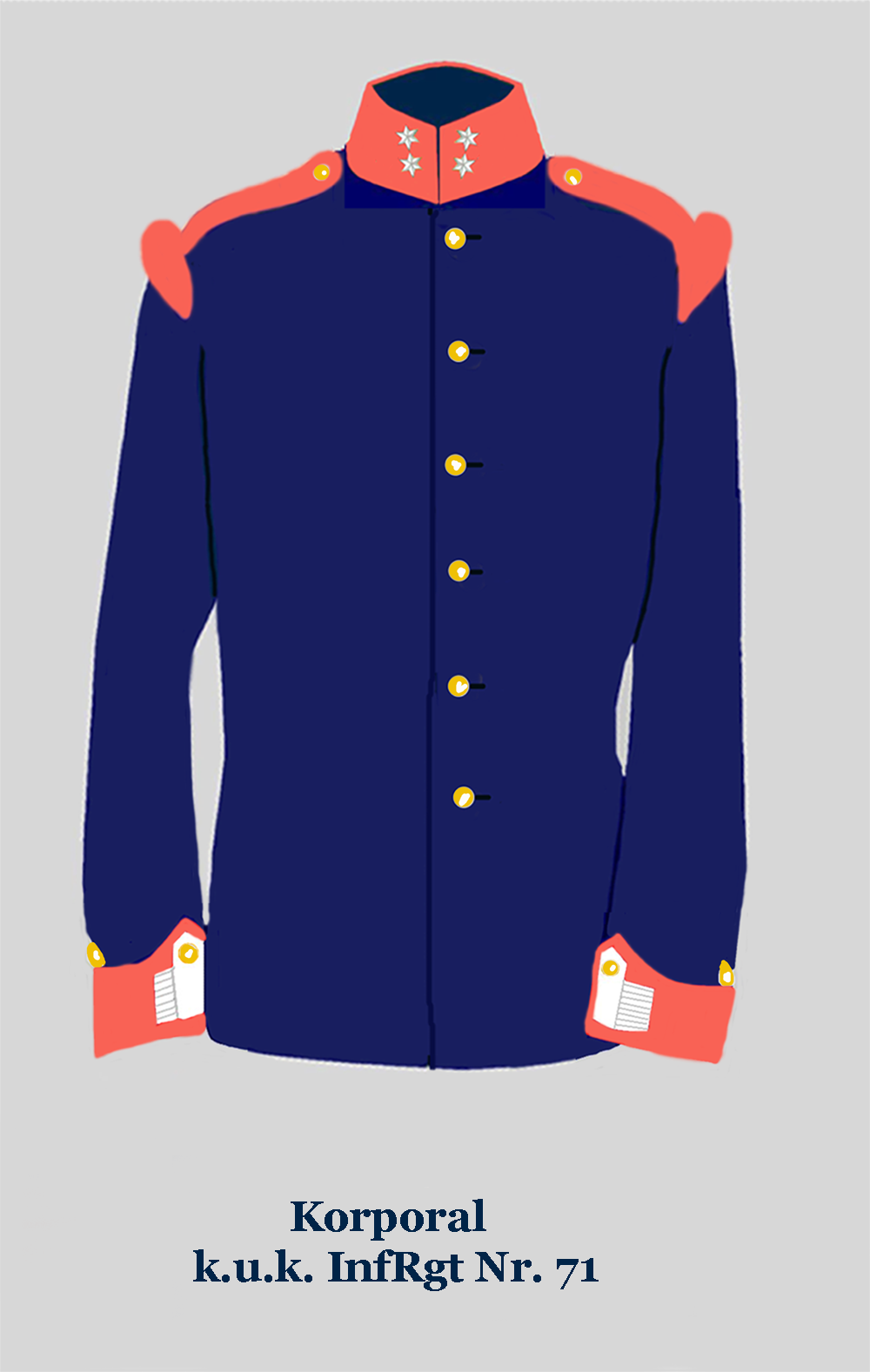 Corporal of the k.u.k. hungarian 71st Infantry Regiment (Collar crab-red, buttons yellow)